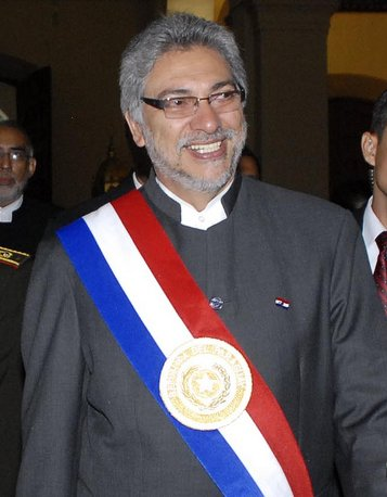 The President Fernando Lugo on Independence day, Asunción, Paraguay.